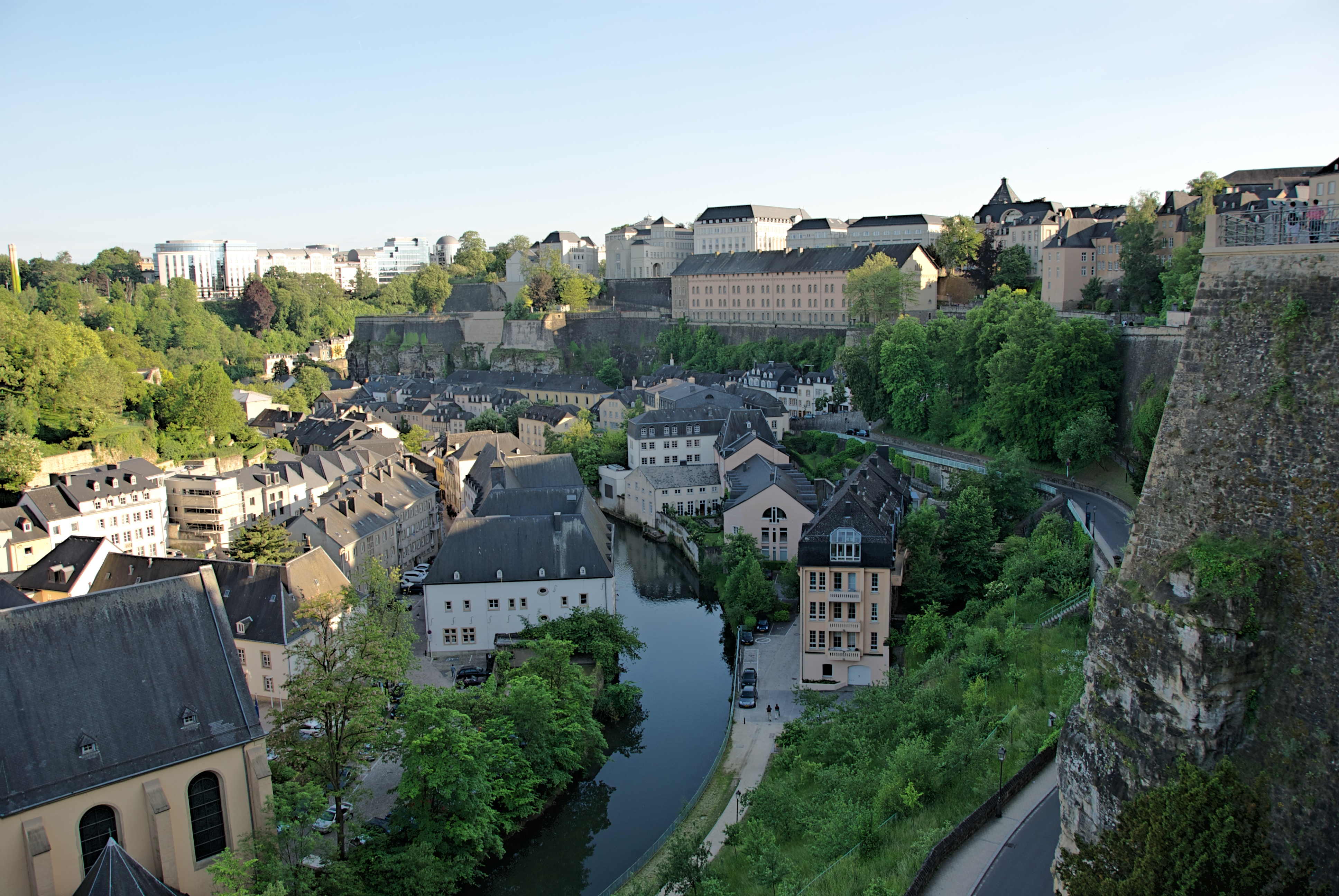 An HDR photograph of the Grund along Alzette River in Luxembourg City as taken from a wall to the north facing south.